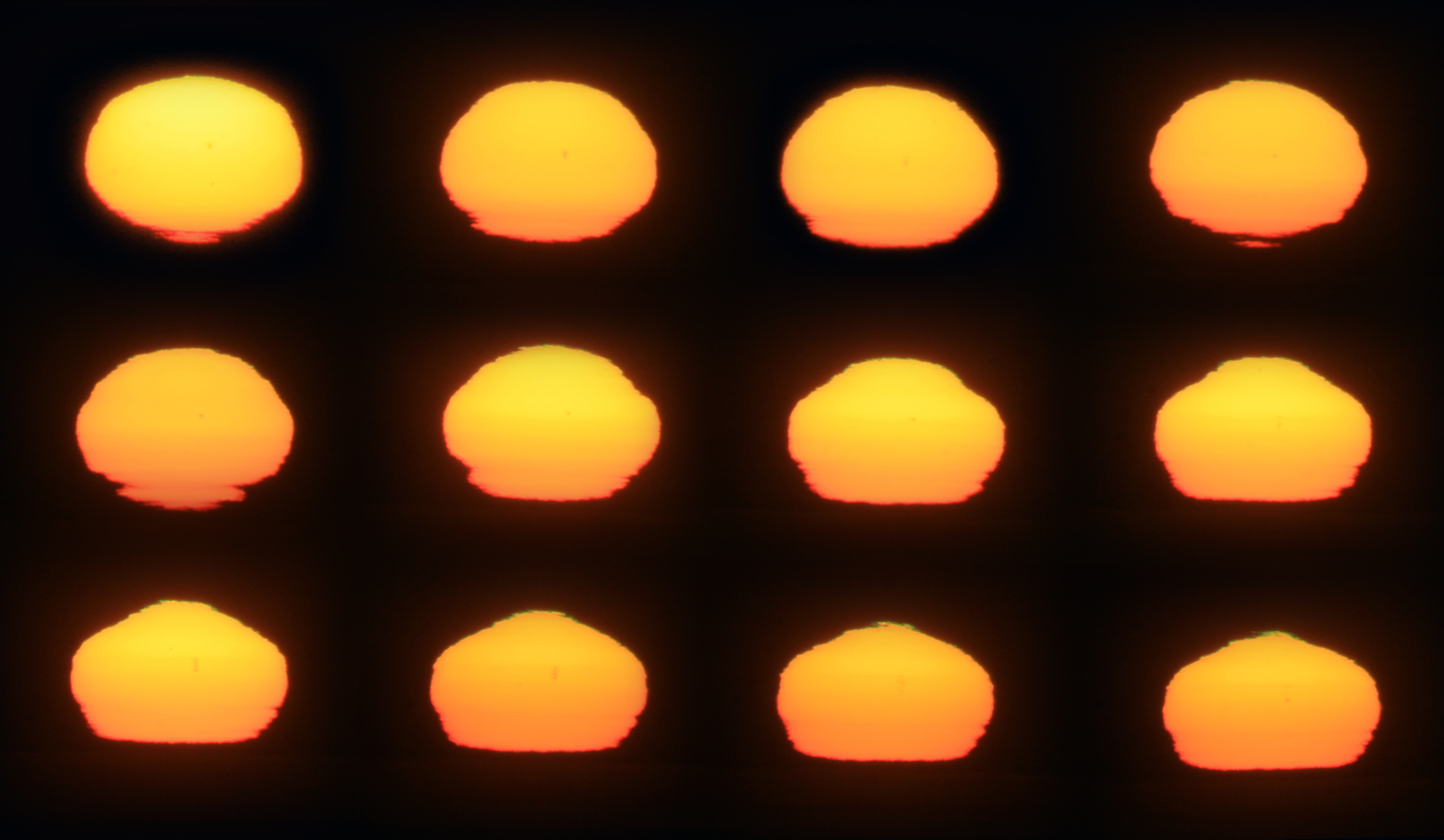 Sunset mirage,sunspot mirage, green rim and green flash. To read more about the image please follow the link